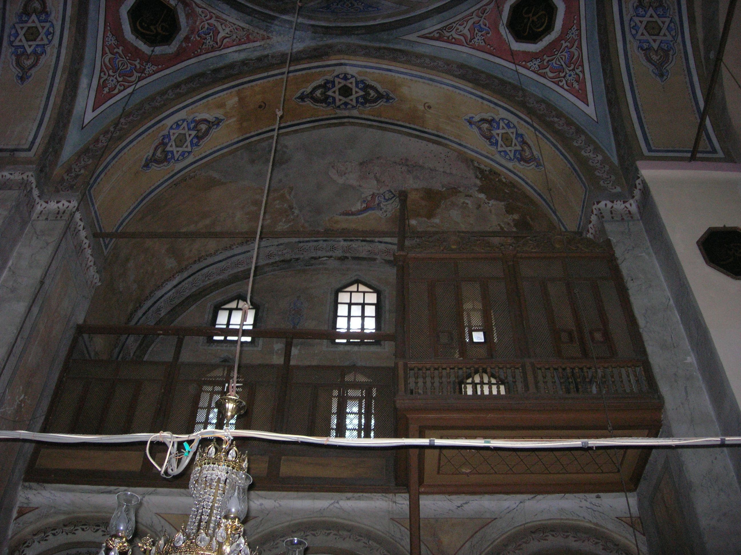 The southwest gallery of the Gül Mosque in Istanbul with the wooden sultan's lodge